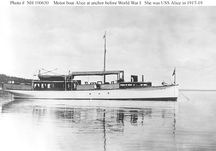 At anchor prior to World War I, while employed as a pleasure craft. USN Photo NH 100650